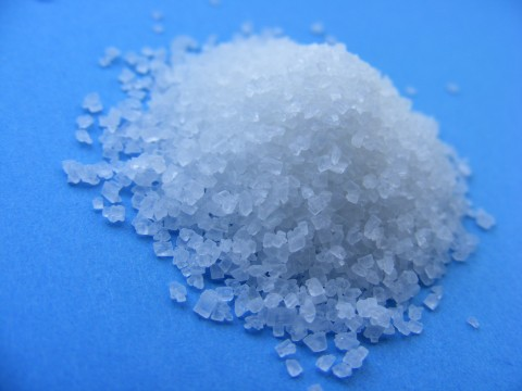 Free Photos – White Sugar Crystals More photos and details about possible copyright or licensing restrictions here: Full Size Up to 3072 x 2304 pixels Information Regarding Copyright